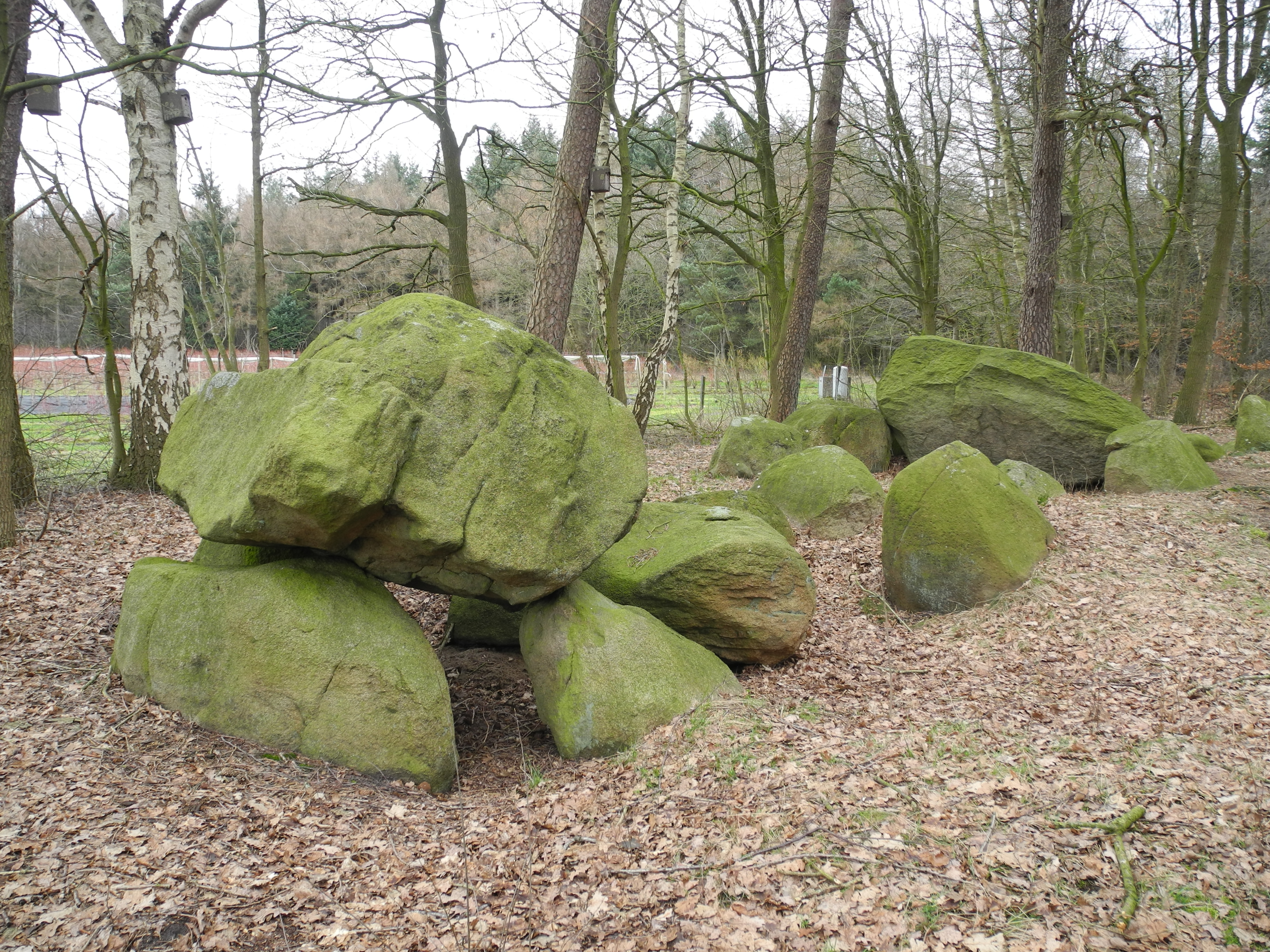 Megalithic tomb "Rickelmann I" (district Osnabrück in Lower Saxony, Germany).